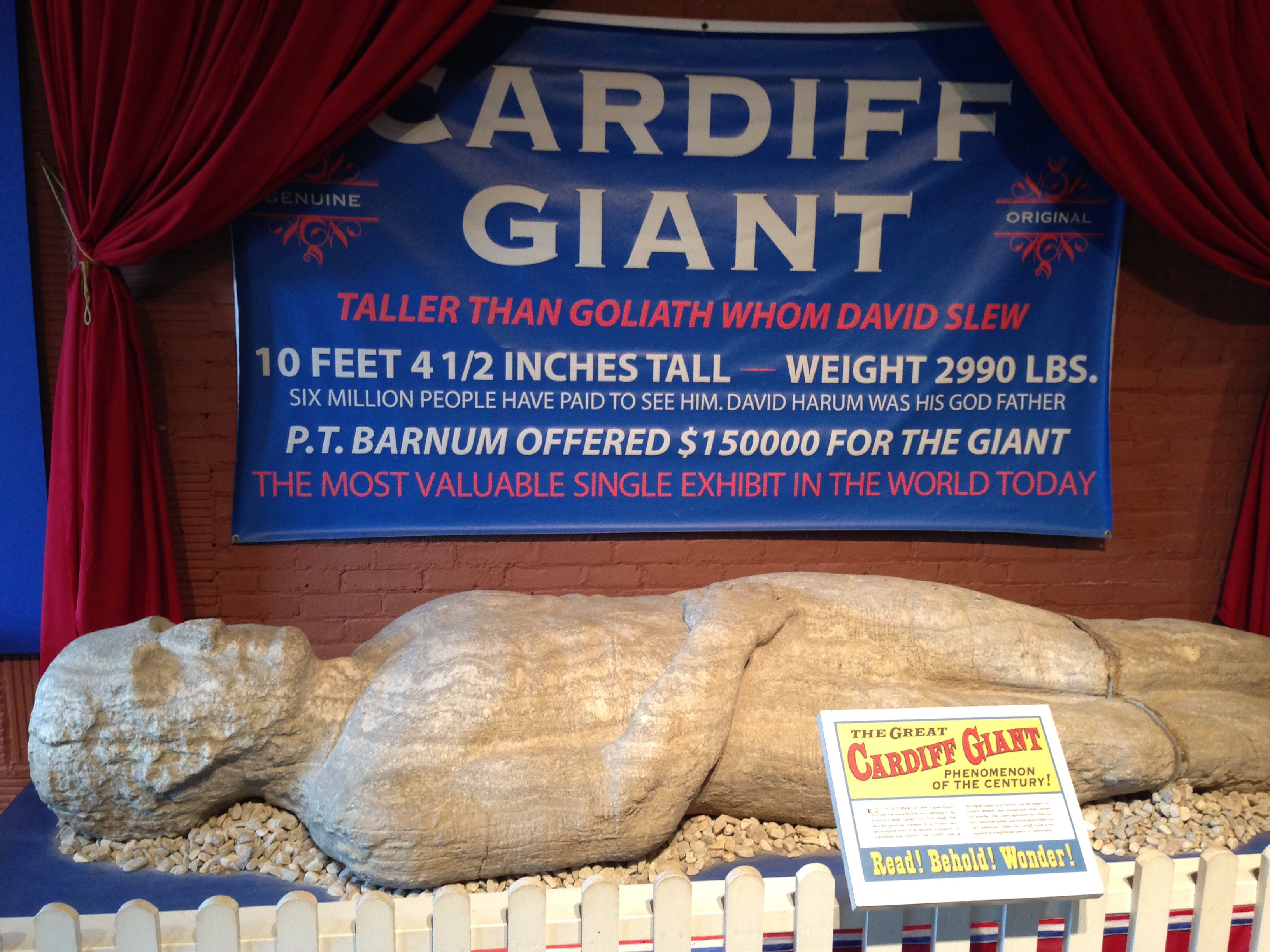 The Cardiff Giant at the Farmers' Museum in Cooperstown.